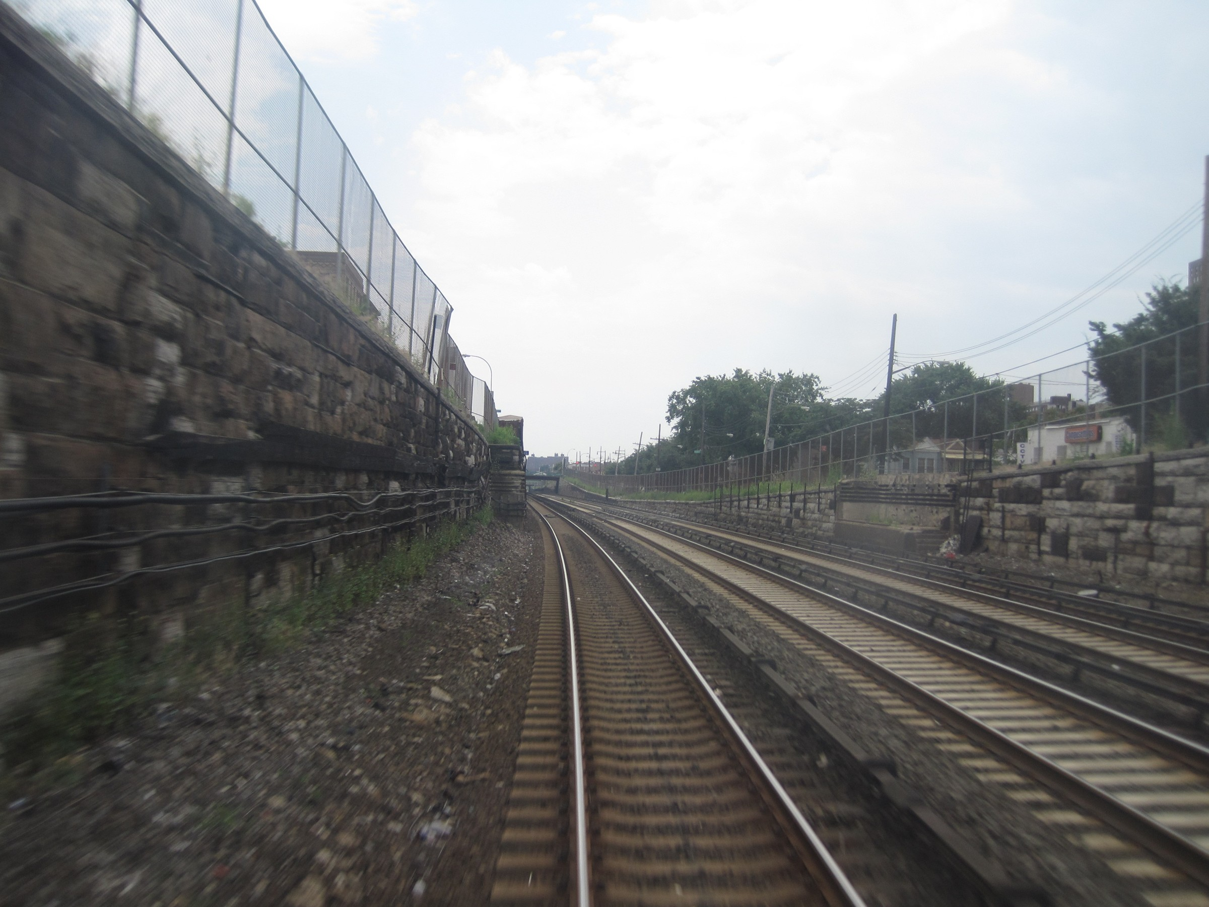 Site of the former NYCRR 183rd Street Station on the Harlem Division, looking south.